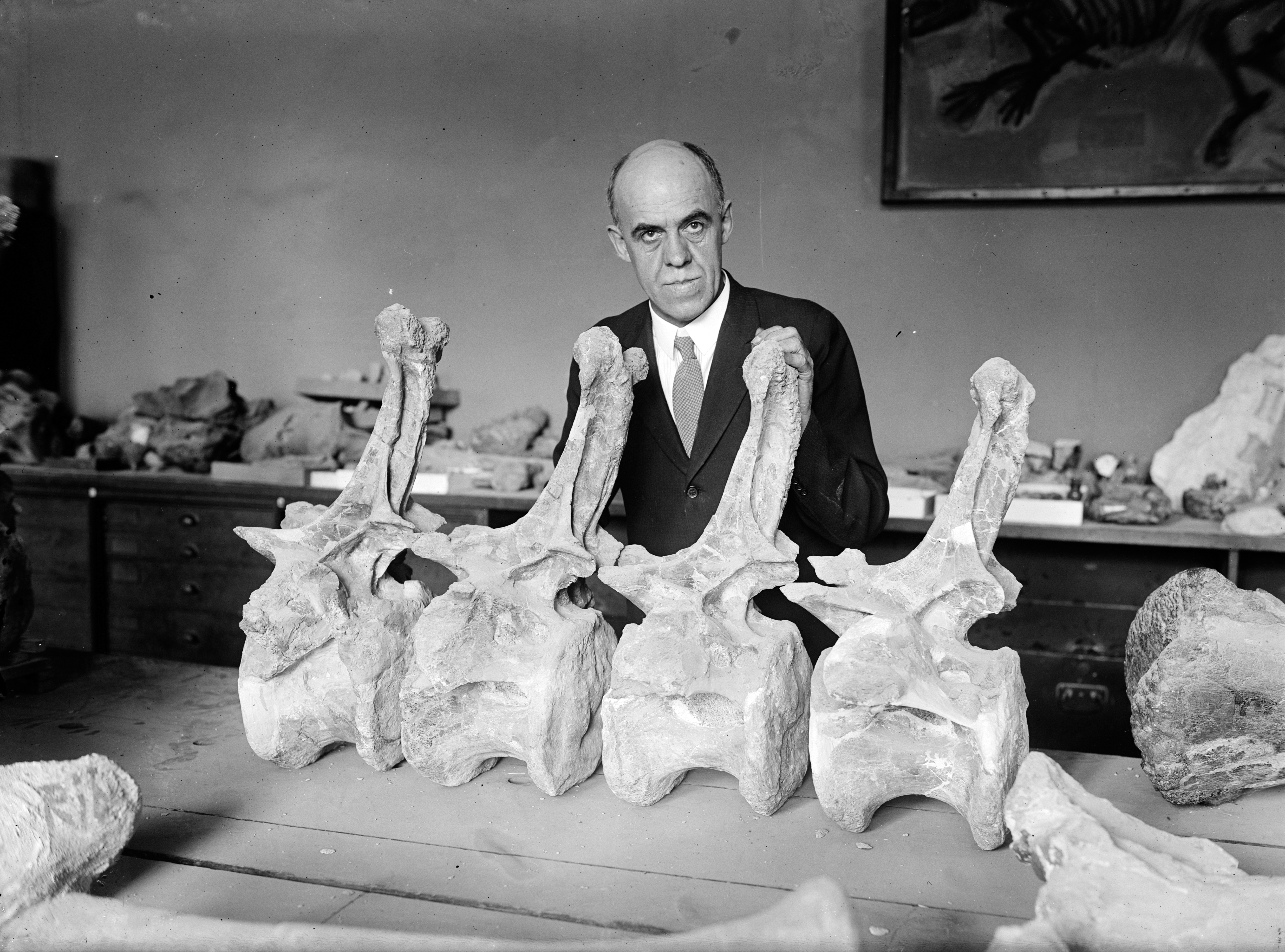 Original caption: "Professor Charles Gilmore of the Smithsonian Institution with dinosaur Diplodocus." Gilmore poses with caudal vertebrae assigned to Diplodocus longus, from specimen USNM 10865. Gilmore described the specimen and mounted it in the Smithsonian in 1932.